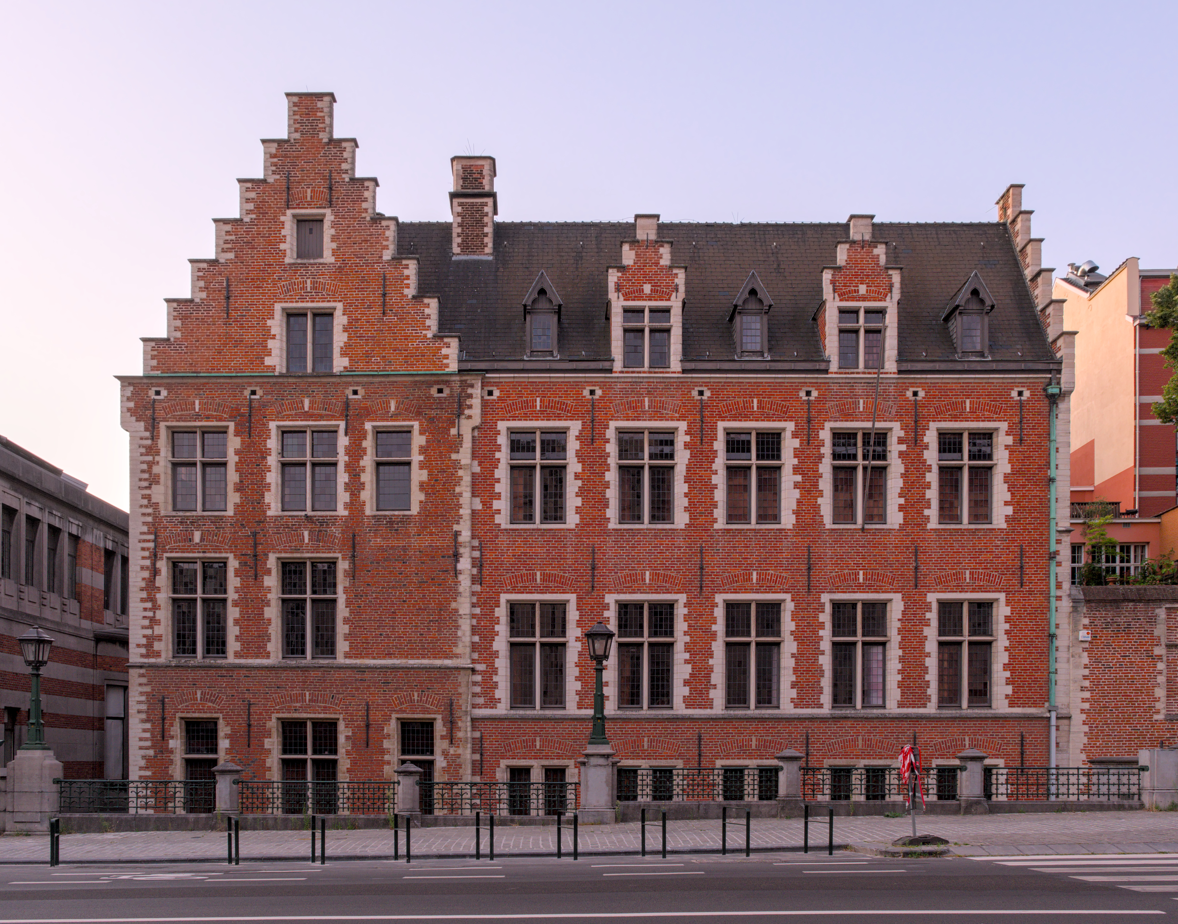 Hôtel Ravenstein during morning civil twilight (Brussels, Belgium) This photo of immovable heritage has been taken in the Brussels Capital Region